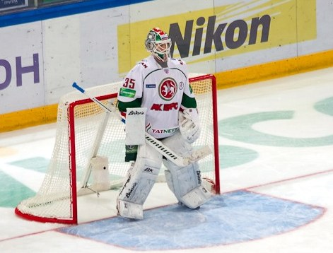 KHL game Amur Khabarovsk vs. Ak Bars Kazan on September 28, 2011. Ak Bars goalie Petri Vehanen.